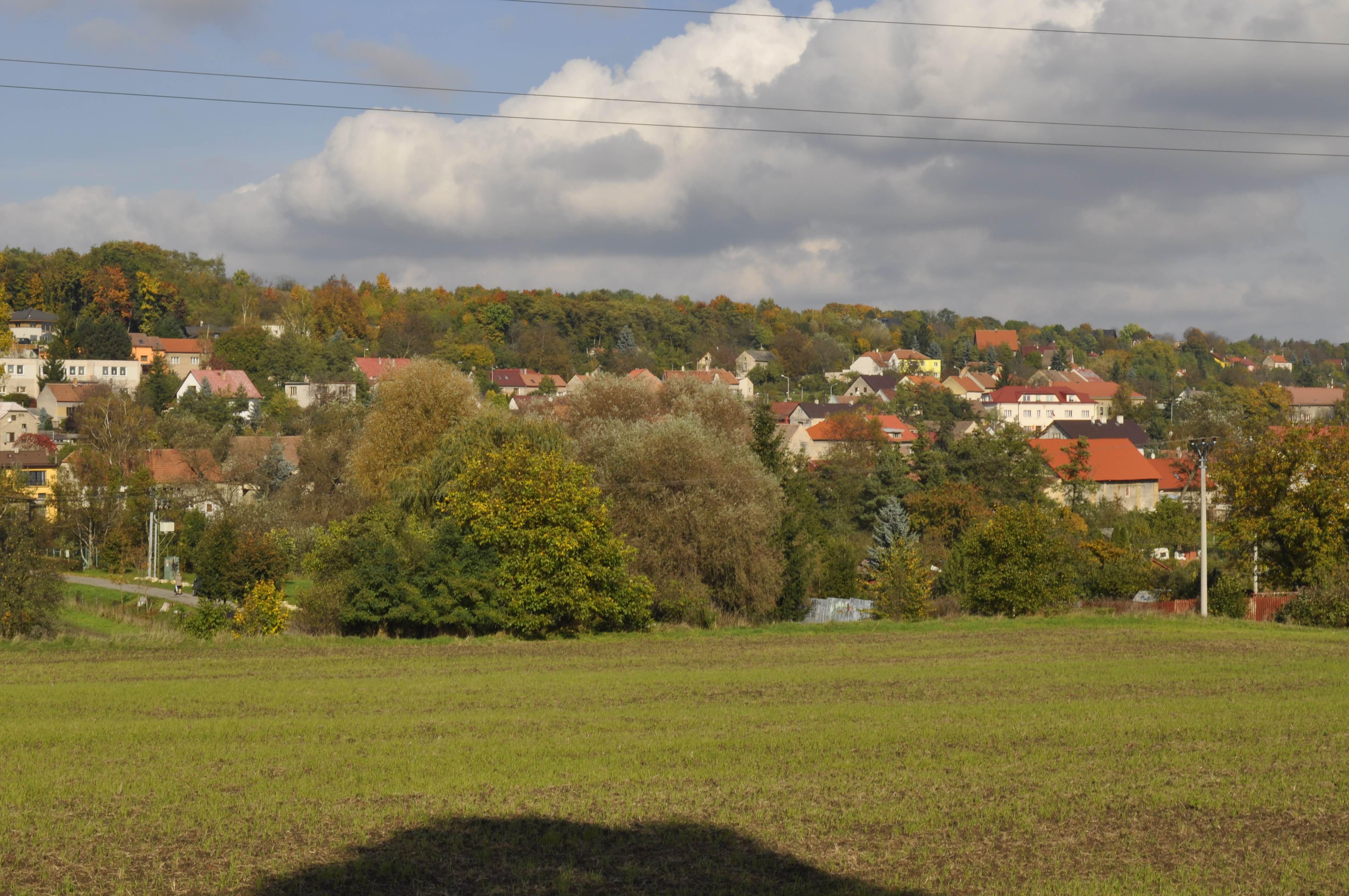 Olšany (Brandýsek) - view from the cemetary